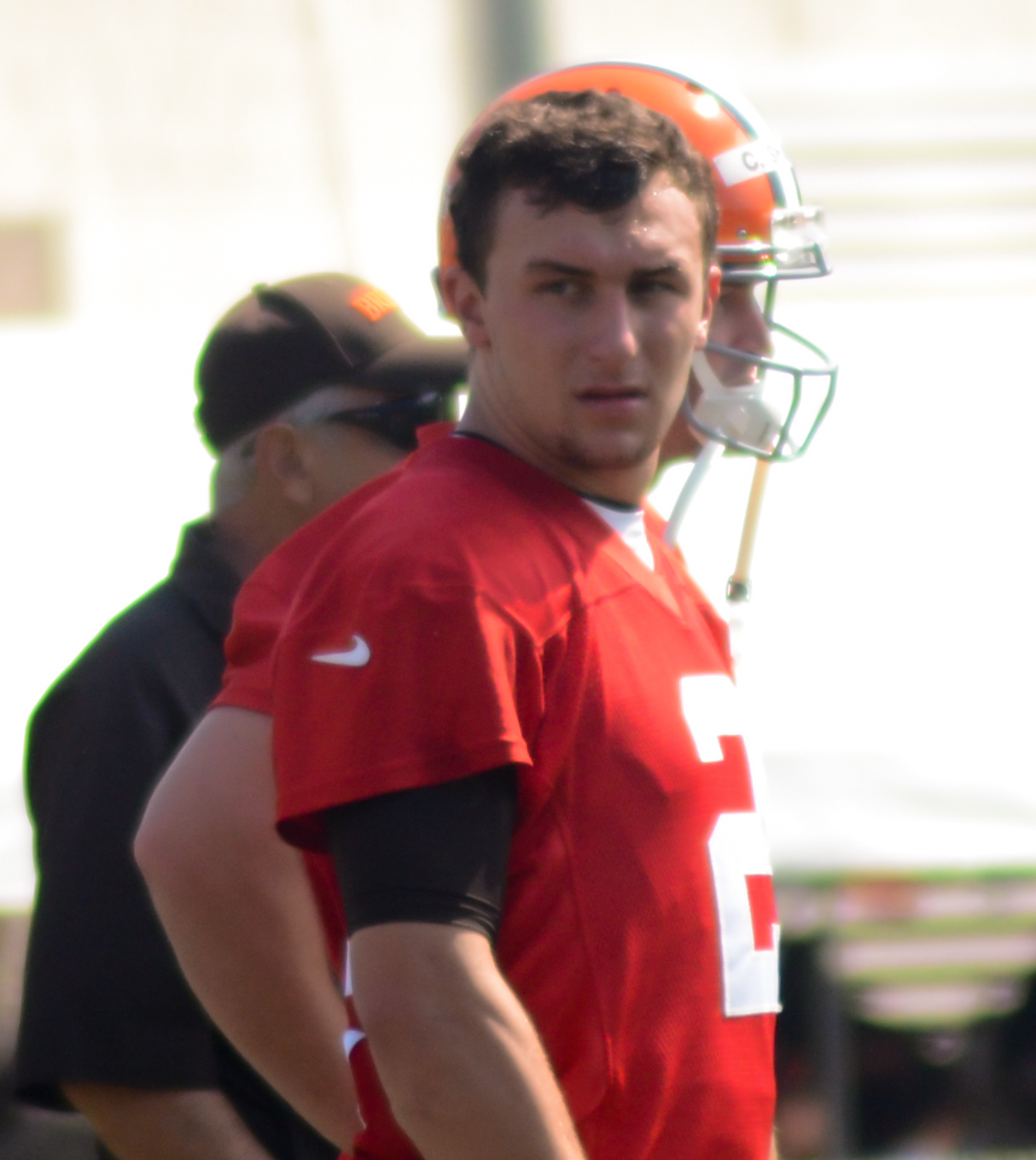 Johnny Manziel in 2014 Cleveland Browns training camp.